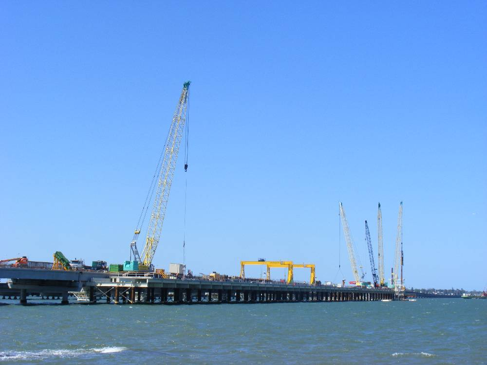 Houghton Hwy bridge duplication viewed from South East